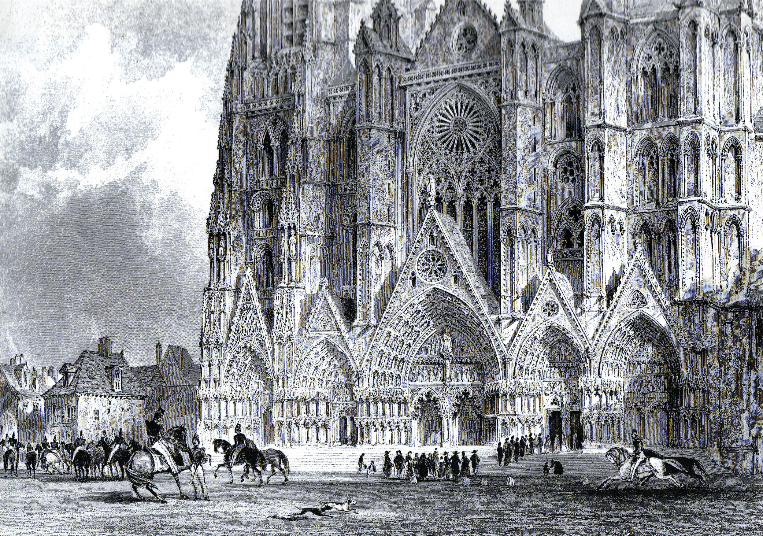 Bourges cathedral, around 1840. Drawing by T. Allom, engraving by J.H. Le Keux.